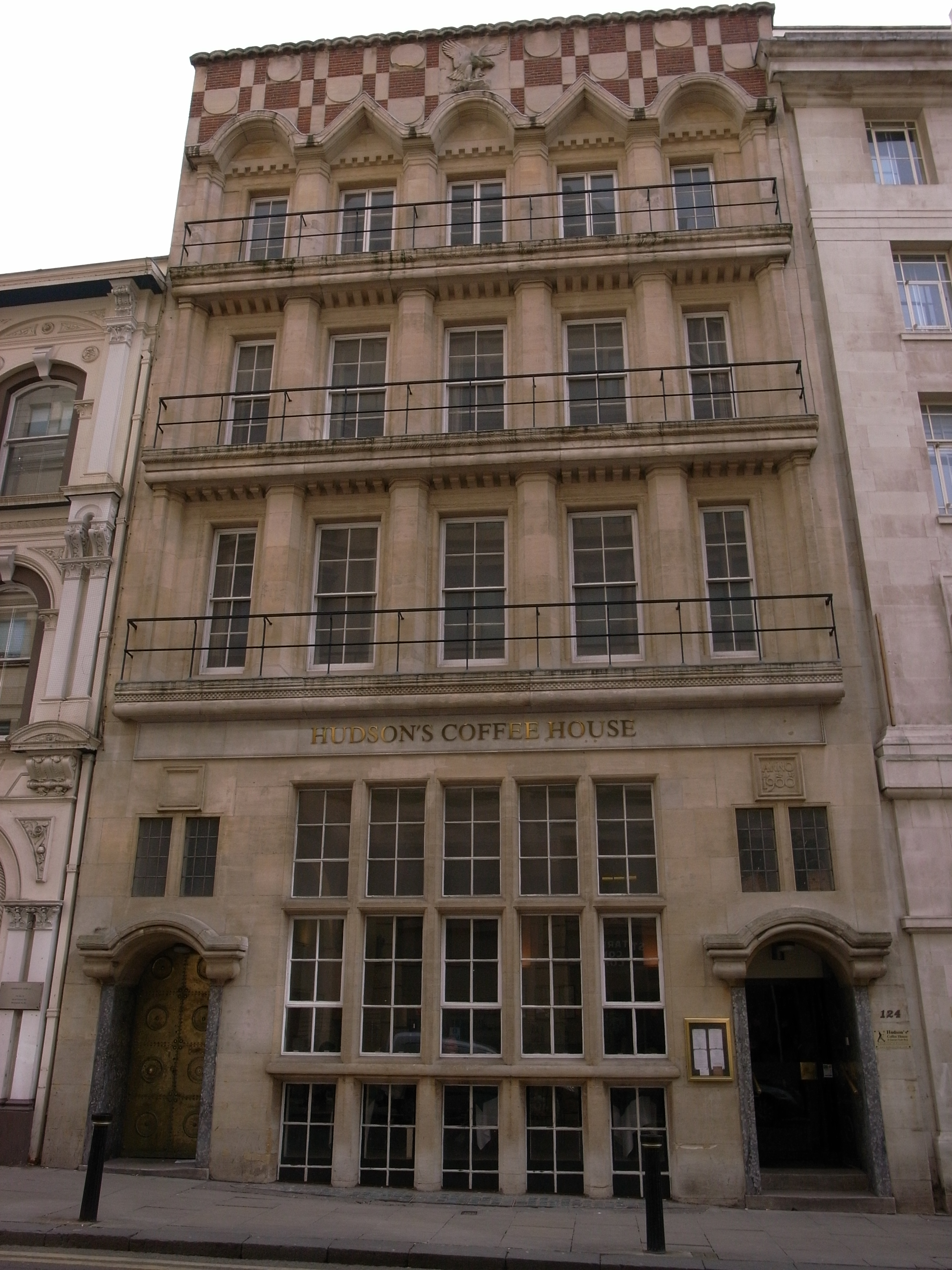 122-124 Colmore Row, Birmingham, England. Built as the Eagle Insurance Offices, and now labelled as Hudson's Coffee House, it is a Grade I listed building on Colmore Row. Completed in 1900, it was designed in an Arts and Crafts style by William Lethaby and Joseph Ball. Photographed by me 28 February 2008. Oosoom